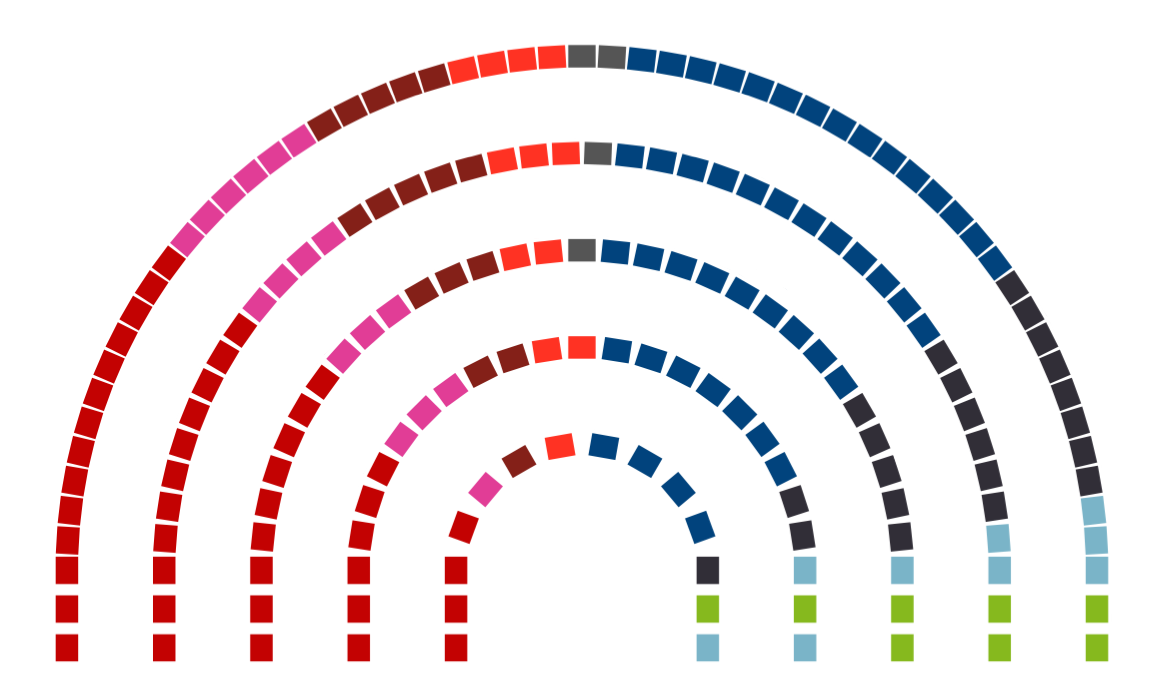 Illustration of seats in the Danish parliament chosen in the Danish parliamentary elections in 2011.